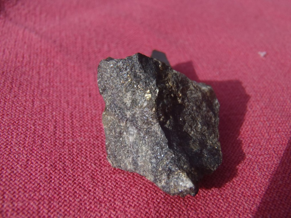 Manganochromite, Pyrrhotite Locality: Sätra Mine, Doverstorp ore field, Finspång, Östergötland, Sweden Dimensions: 25 mm x 25 mm x 30 mm According to the label (Excalibur): "submicroscopic intergrowths in pyrrhotite" Collection and photo Erik Vercammen